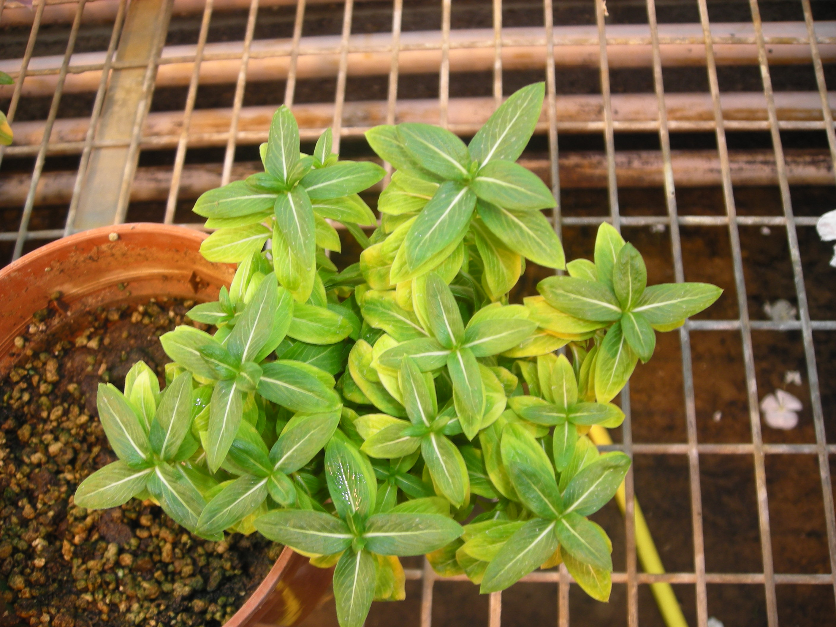 Symptoms of sweet potato little leaf phytoplasma on madacasgan periwinkle